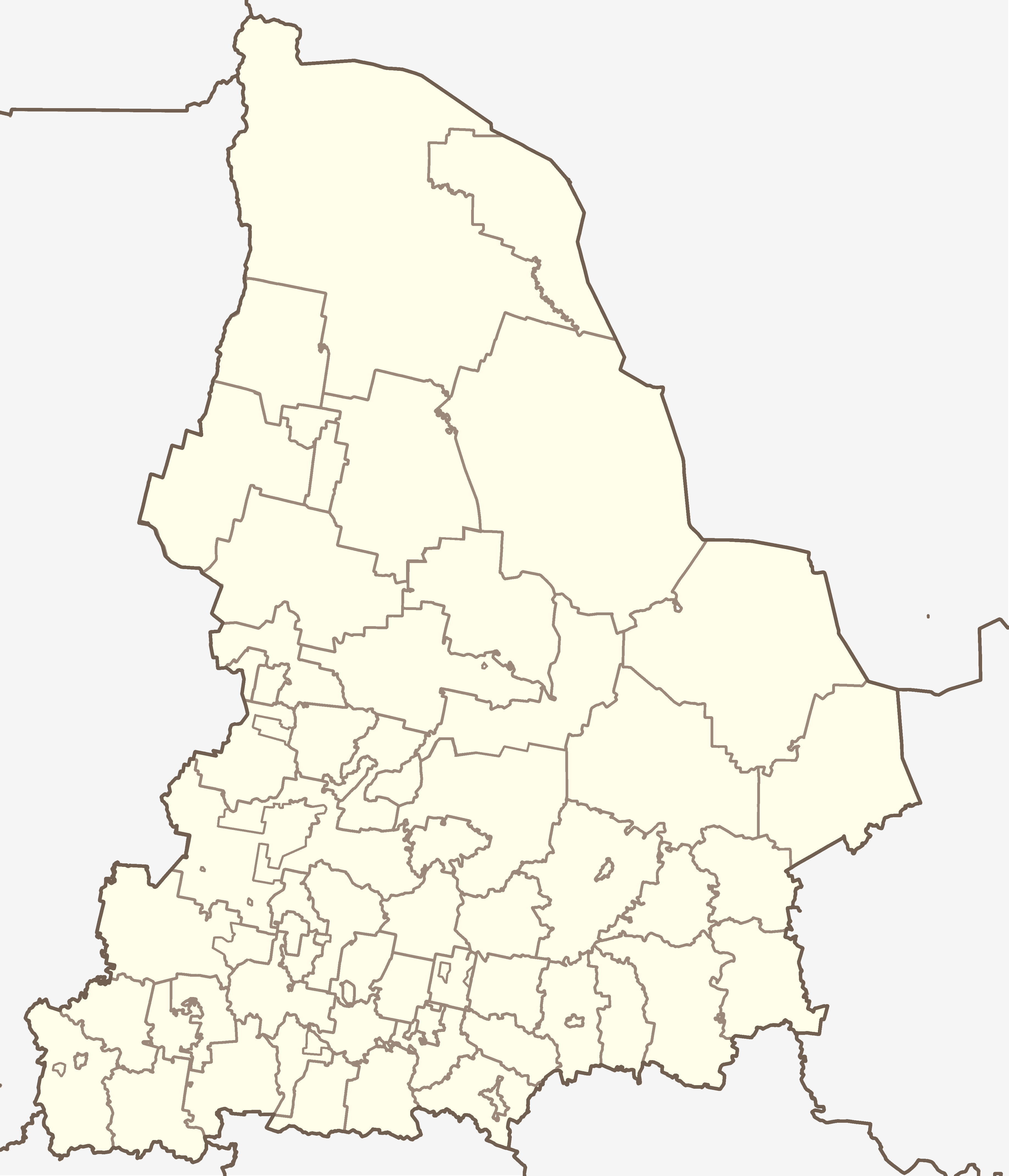 Map of Sverdlovskaya oblast (Russia), in the Mercator projection.